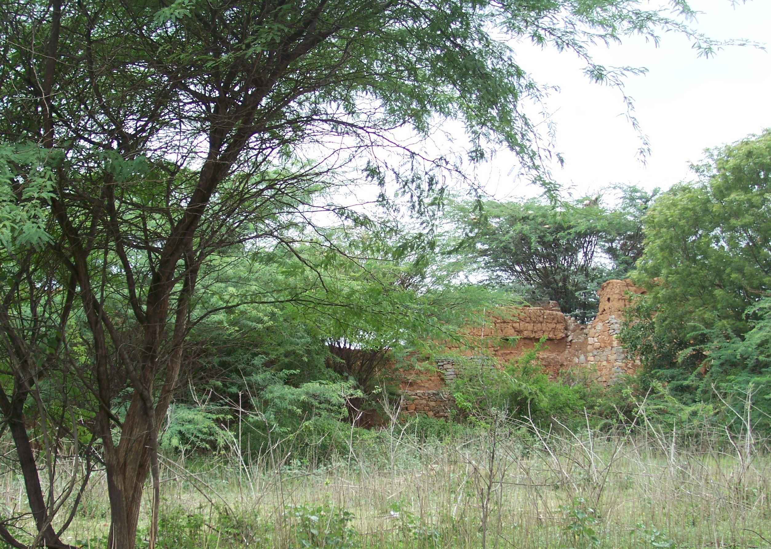 Inside GhaDi Pocharami village